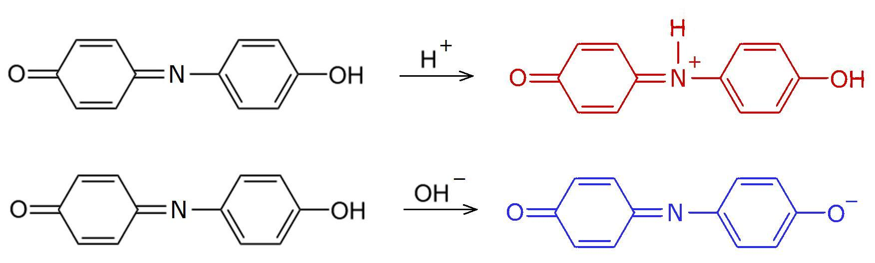 indophenol pH indicator